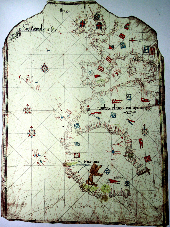 Pedro Reinel nautical chart of Western Europe and Africa. The first known Portuguese chart dated and signed.